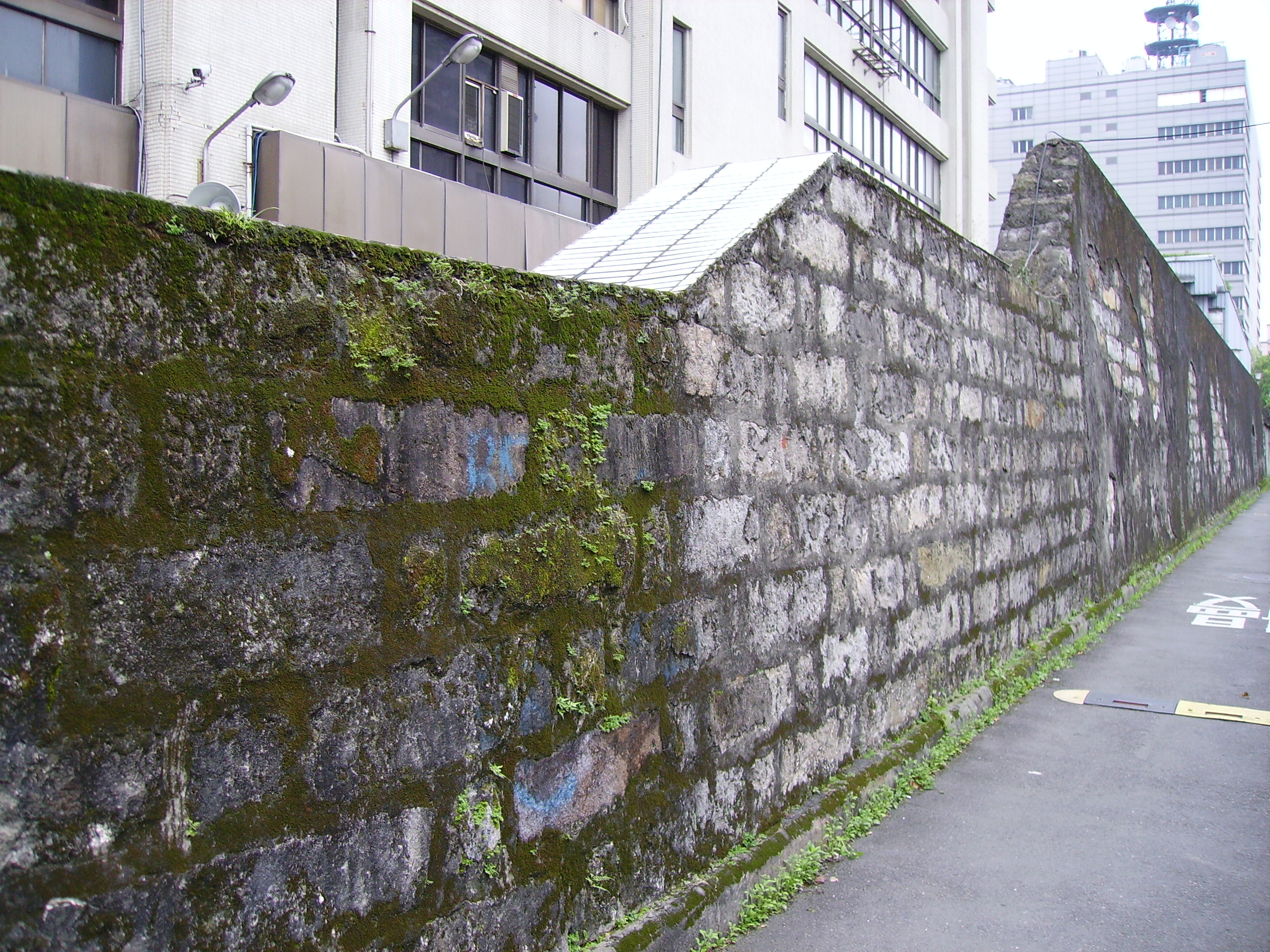 Remains of Taipei Prison Wall.中文（台灣）: 臺北監獄圍牆遺蹟。